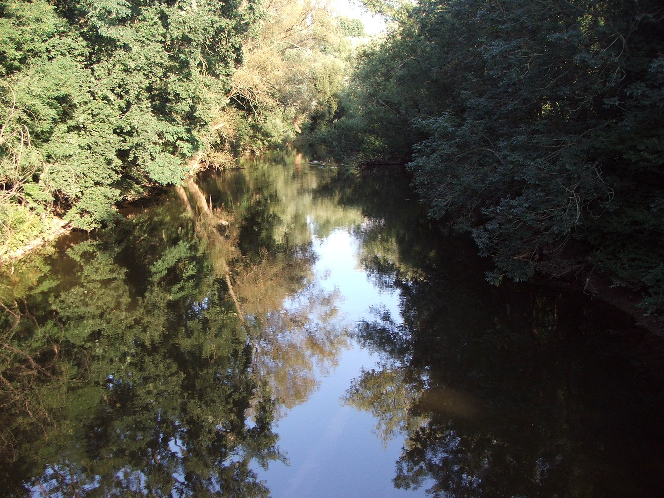 The river Pegnitz near Fürth/Germany